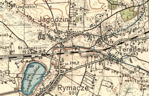 Map Archive of Wojskowy Instytut Geograficzny 1919 - 1939